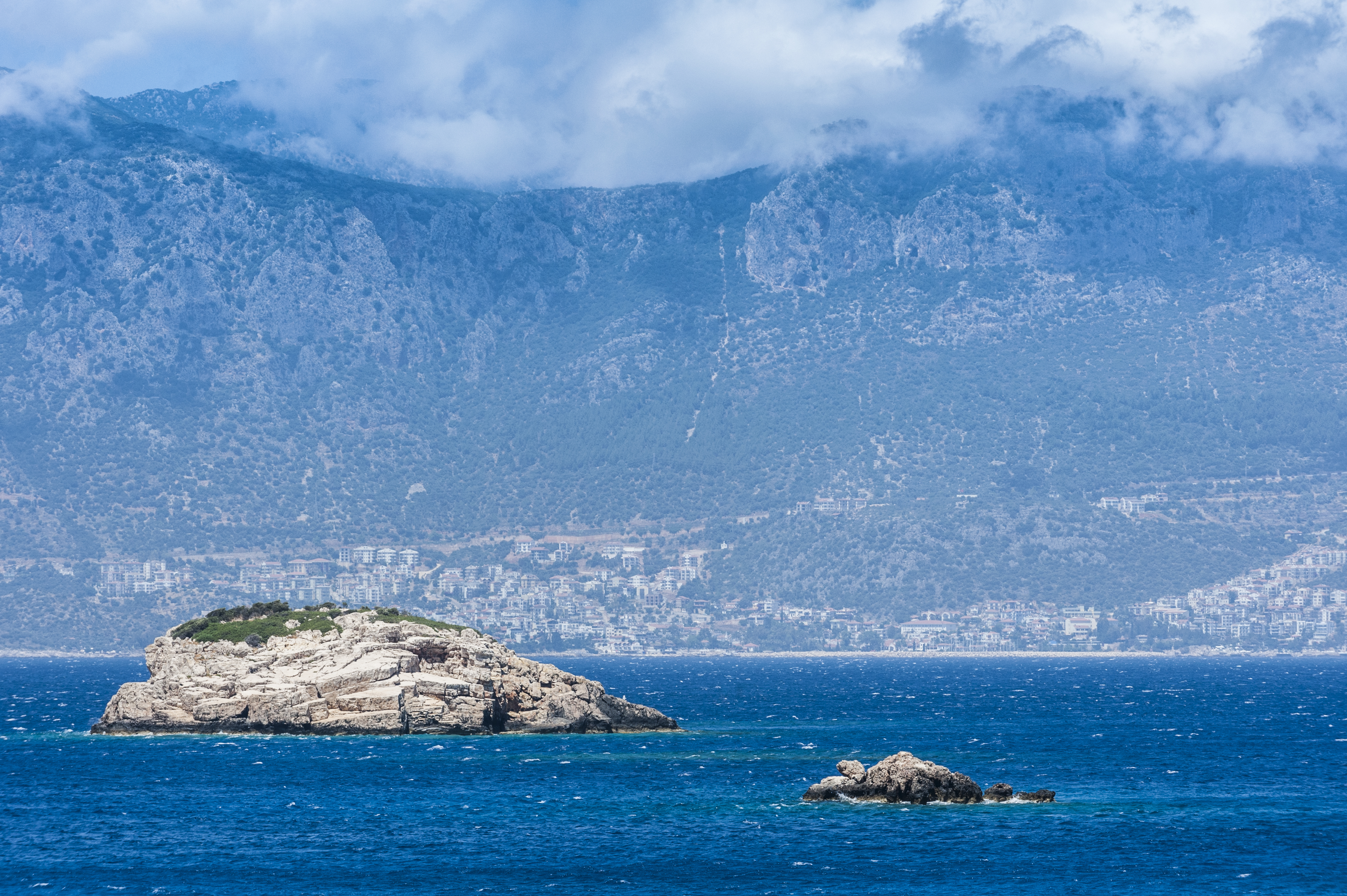 This is a photography of Natura 2000 protected area with ID GR4210004